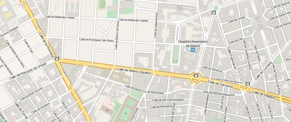 This map may be incomplete, and may contain errors. Don't rely solely on it for navigation.